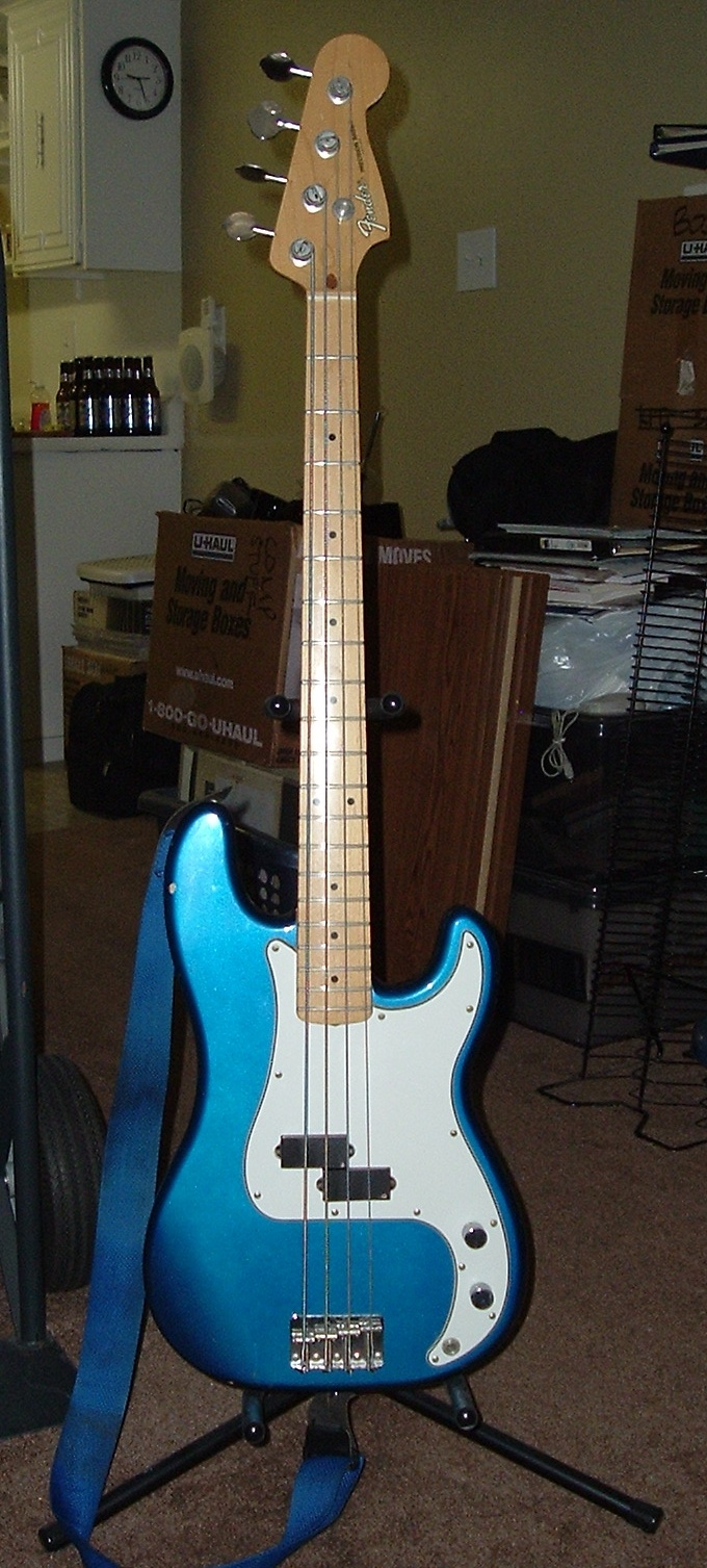 My old Fender Precision bass. Bought it back in 1990.